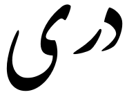 The word Dari in Perso-Arabic script